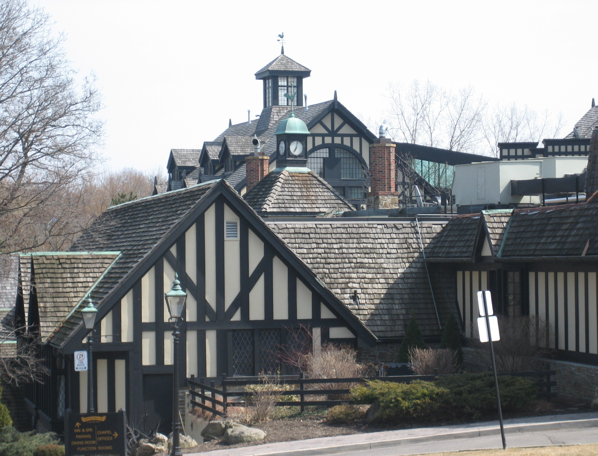 Old Mill Inn & Spa